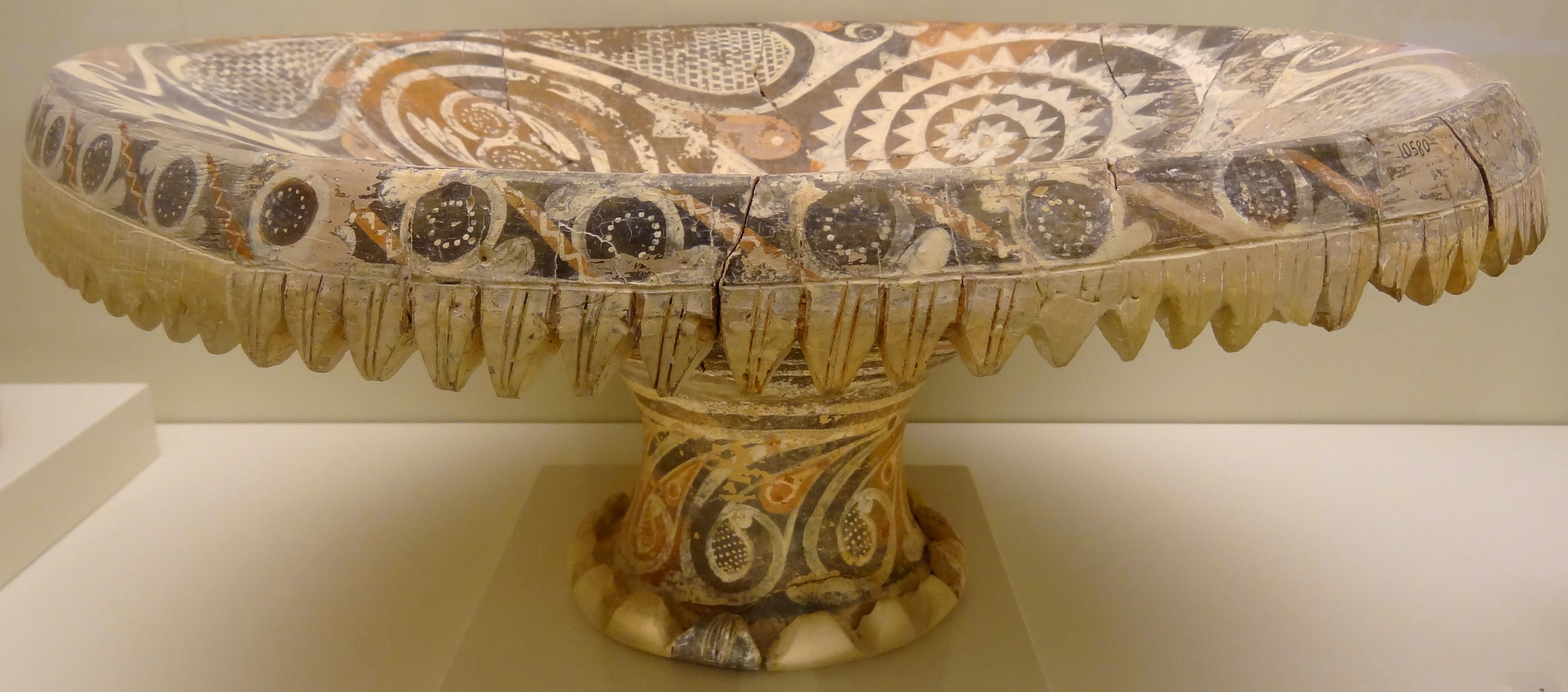 Clay fruitstand with lavish polychrome decoration of spirals, tassels and cross-hatching. The rim is decorated with cutout leaves. From Phaistos, Old-Palace period (1800-1700 BC). Exhibited in Heraklion Archaeological Museum, Crete, Greece.